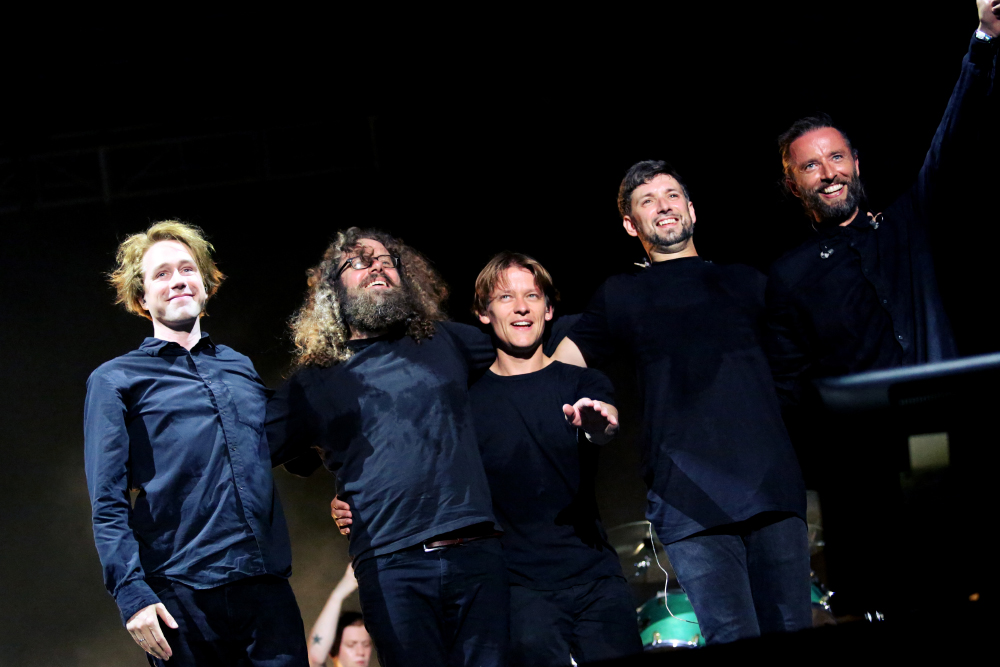 Aug-9-2015, Mew @ Pentaport Rock Festival, Incheon, South Korea